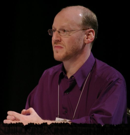 Philip Plait at The Amazing Meeting on January 20, 2007